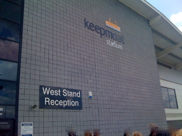 A picture of keepmoat stadium, west stand + keepmoat stadium logo, !people down in the picture are censured!